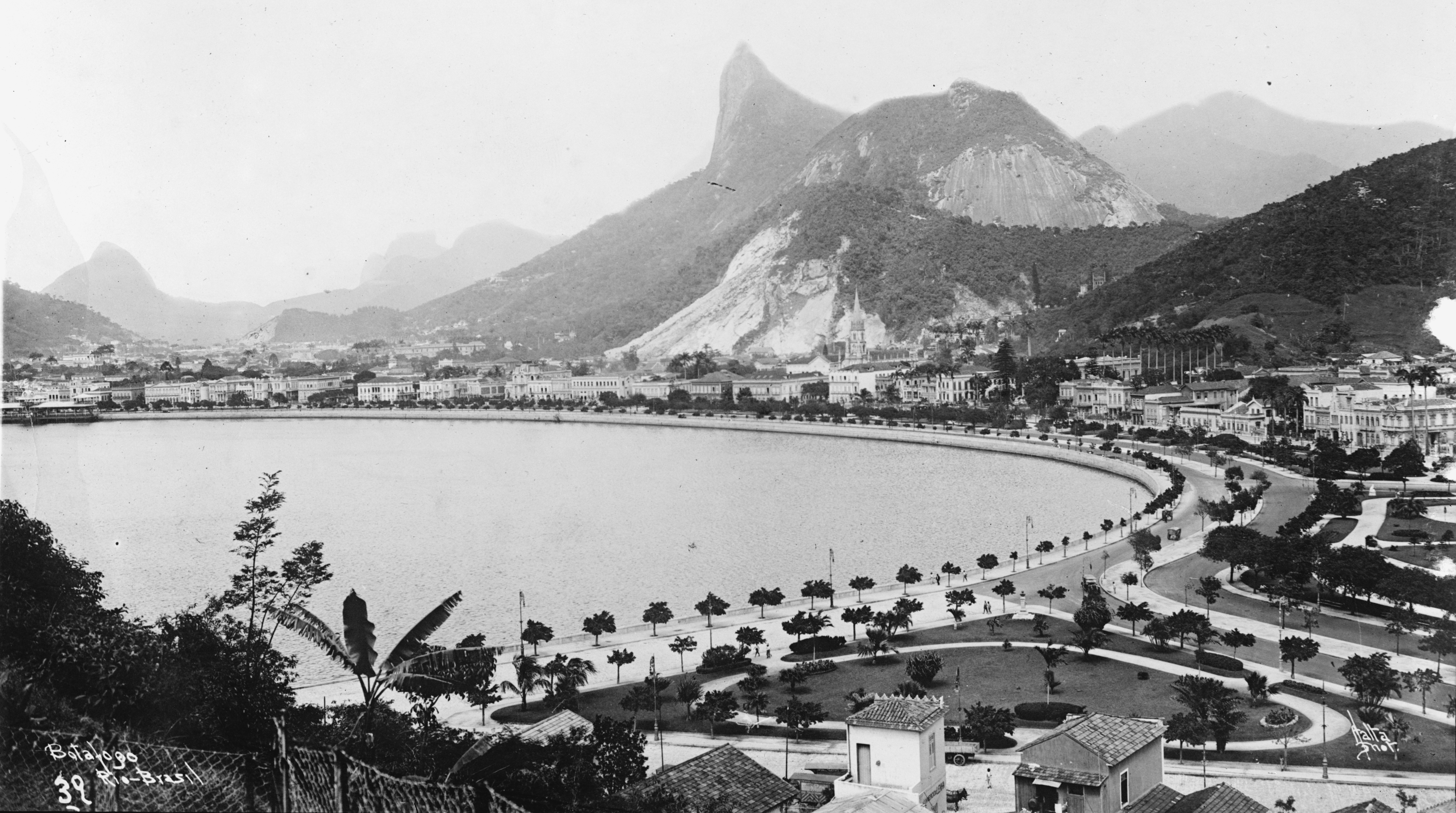 Title Brazil. Rio de Janeiro, Botafogo Bay (Baía de Botafogo). Date Created/Published [between 1909 and 1920] Medium: 1 negative : glass ; 5 x 7 in. or smaller Repository Library of Congress Prints and Photographs Division Washington, D.C. 20540 USA Collections: National Photo Company Collection